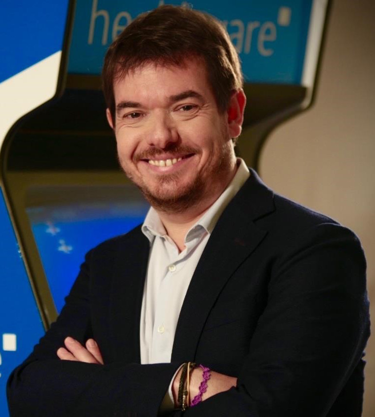 Roberto Ascione